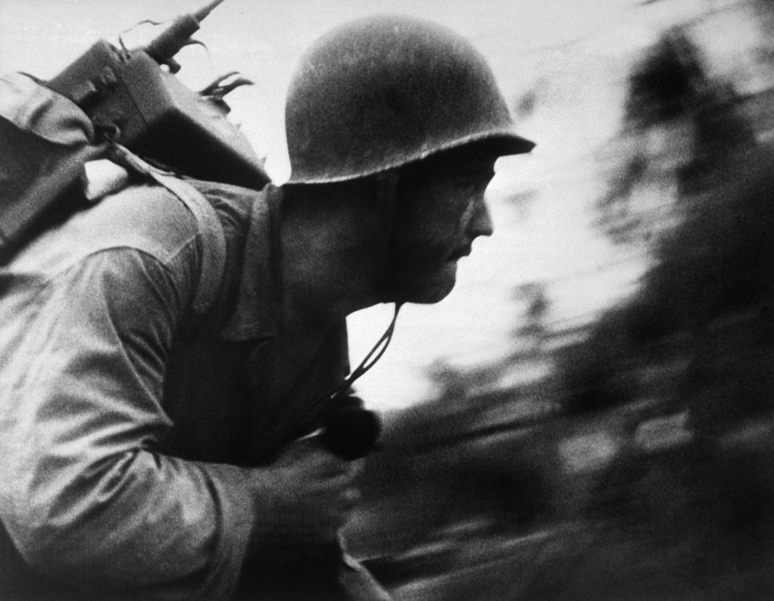 A US Marine charges across the beach on Peleliu Island, Palau Islands, the "walkie talkie " firmly strapped to his back and clutching a radio phone in his right hand. Ca. September 1944. (Navy) Exact Date Shot Unknown NARA FILE #: 080-G-48359 WAR & CONFLICT BOOK #: 1181